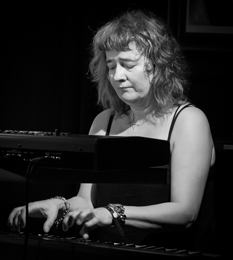 Olga Konkova performs with Per Mathisen Wonder Quartet at the stage of Buckleys. The concert was part of the Oslo Jazz Festival in Norway and took place on 18. August 2016. Lineup:Per Mathisen (double bass)Olga Konkova (keyboard)Bendik Hofseth (tenor saxophone)Utsi Zimring (drums)